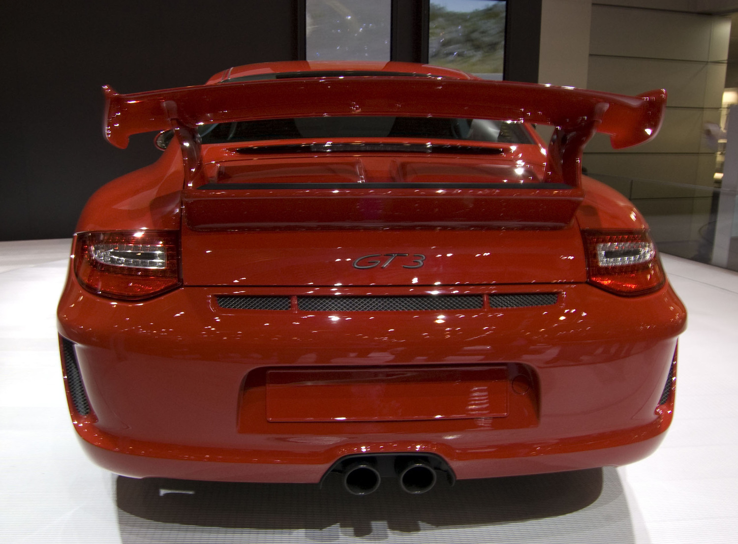 Porsche 911 GT3 at the 2009 Geneva Motorshow.